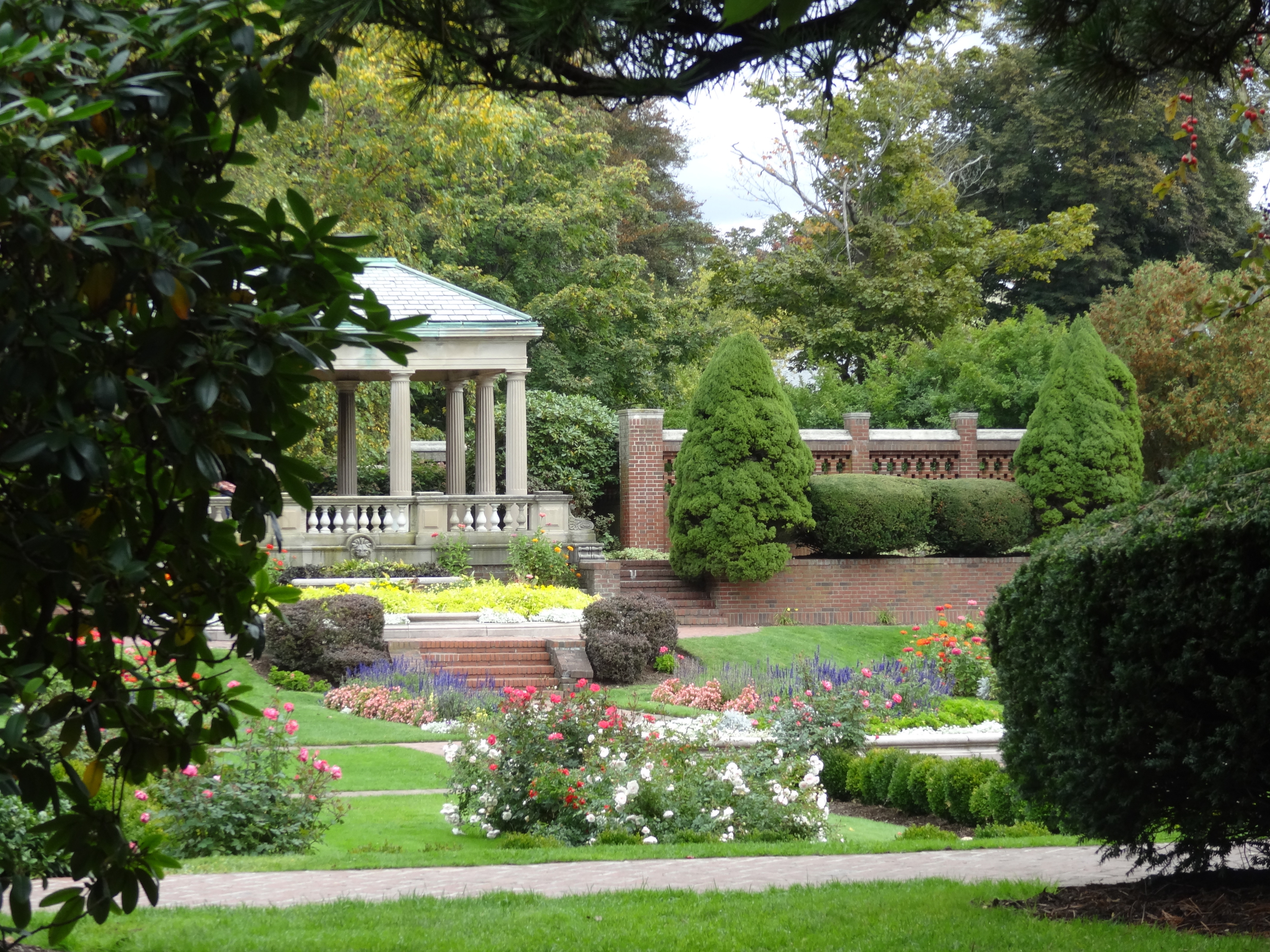 This garden is on the former site of the Stetson Cottage, on the Woodbury Point estate of Robert Dawson and Marie Antoinette Evans. This fourteen room cottage served as the Summer White House for President William Howard Taft in 1909 and 1910. The cottage was then cut in two pieces and shipped across the harbor to Marblehead where it was reassembed. Mrs. Evans replaced the cottage with the Italian garden.